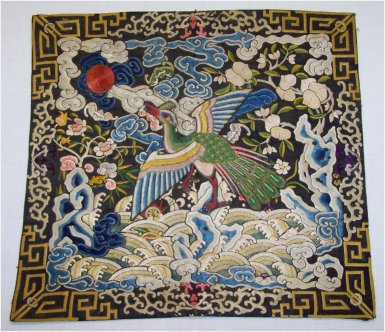 Rank Badge/Mandarin Square. 3rd civil rank (peacock). Late Qing Dynasty (late 19th century, early 20th century).